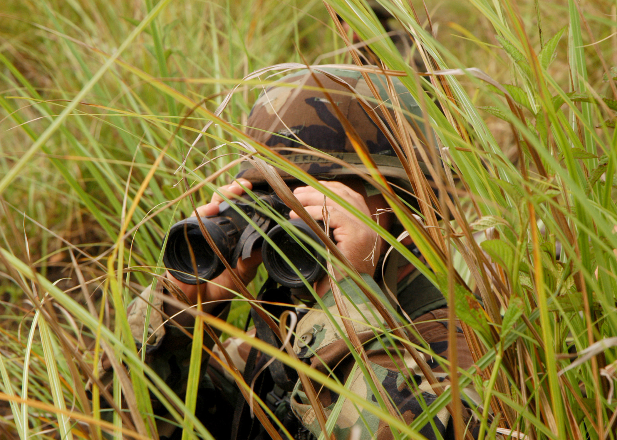 GUAM (Aug. 23, 2007) - Construction Mechanic 1st Class Kenneth E. Terlaan watches for enemy movement during a field exercise with Naval Mobile Construction Battalion (NMCB) 4. NMCB-4 is deployed to Guam to support construction requirements for Pacific Command. U.S. Air Force photo by Air Force MSgt. Rickie D. Bickle (RELEASED)